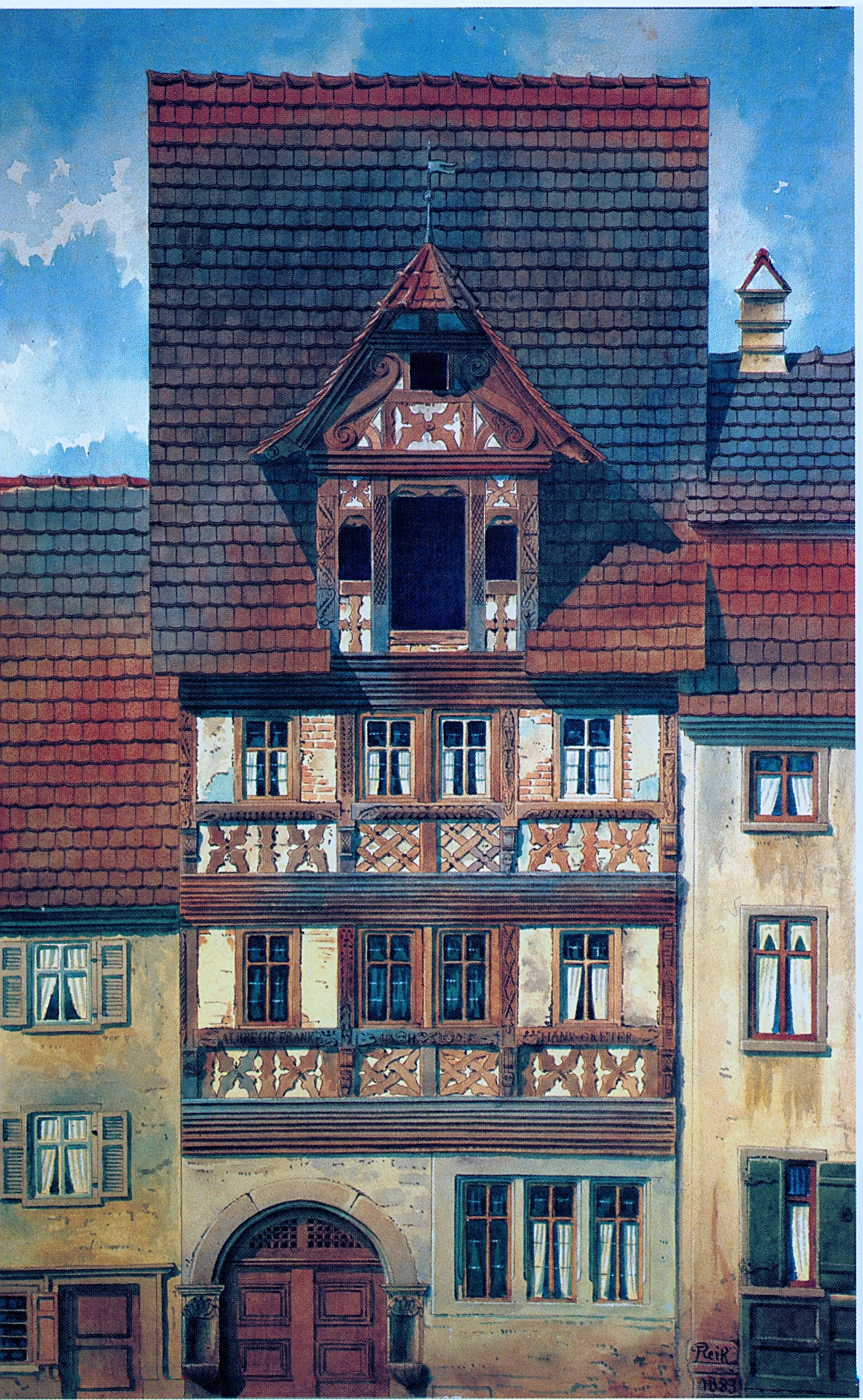 siehe oben